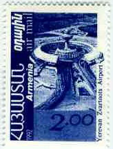 Stamp of Armenia